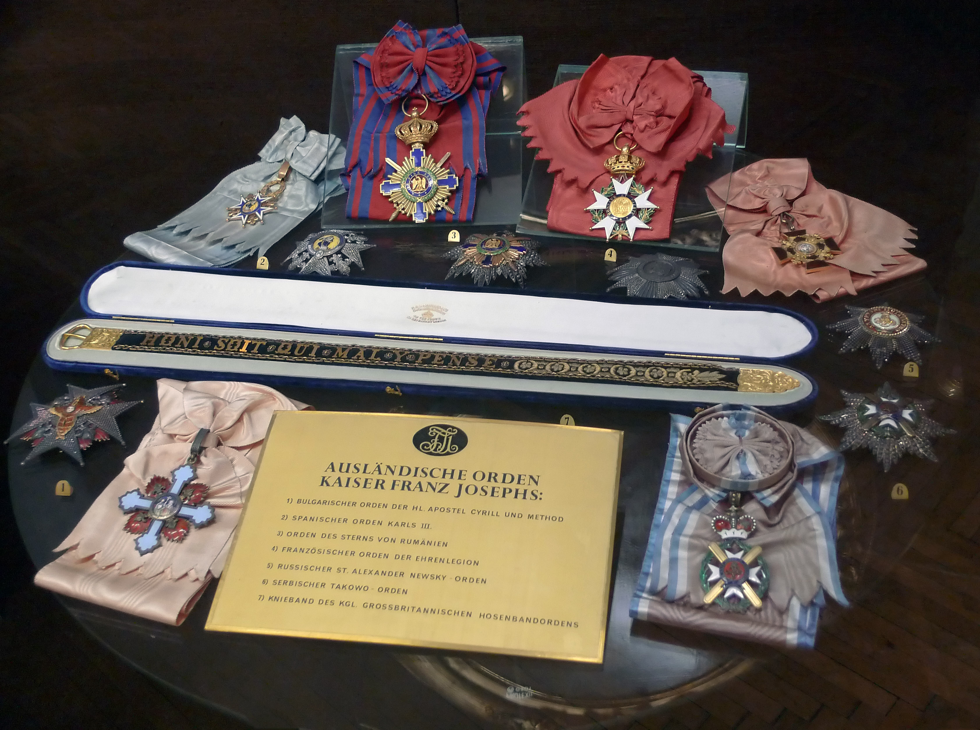 Foreign decorations of Emperor Franz Joseph I of Austria. Heeresgeschichtliches Museum Wien.